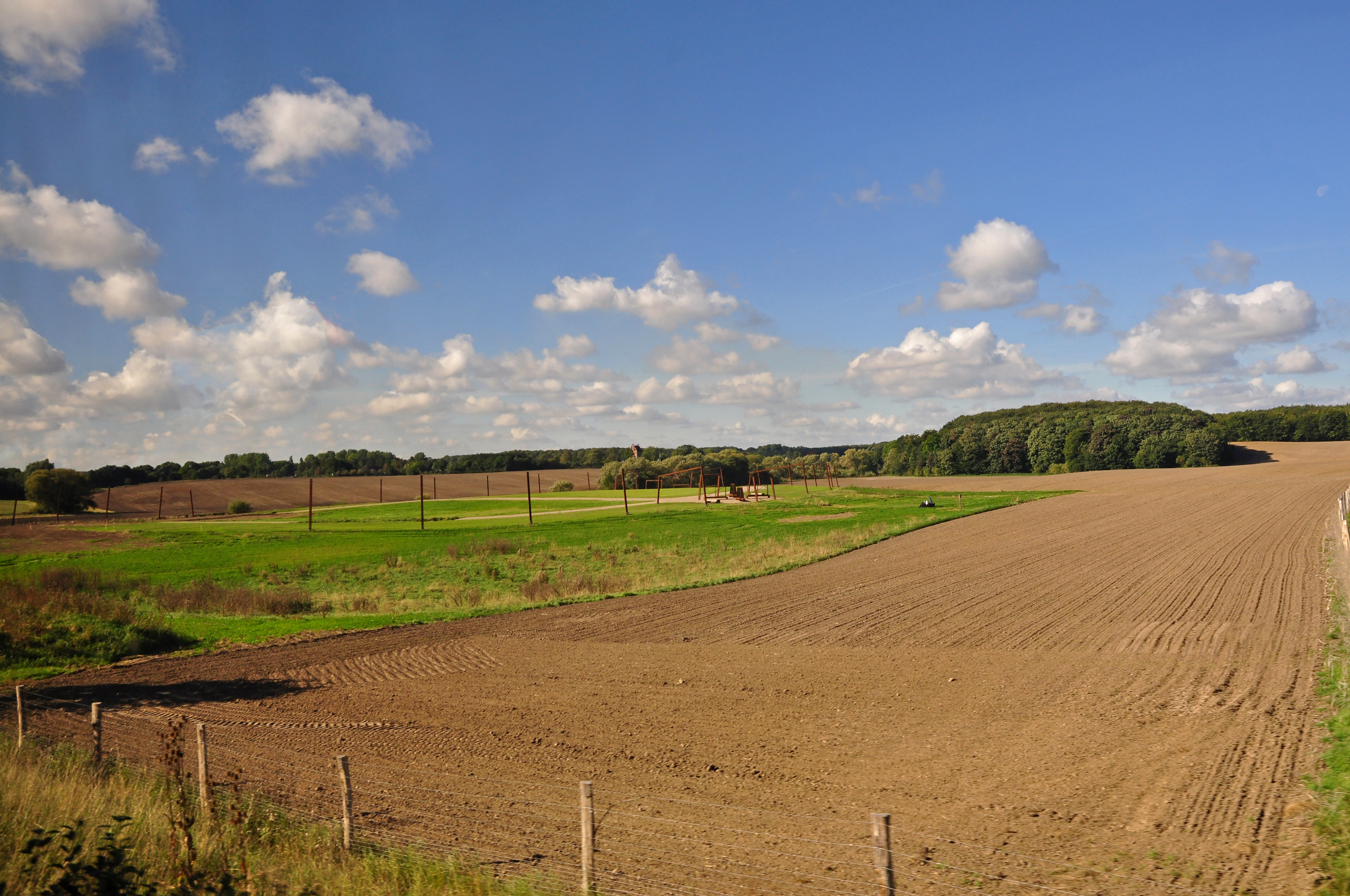 The viking fortress in Køge, Denmark